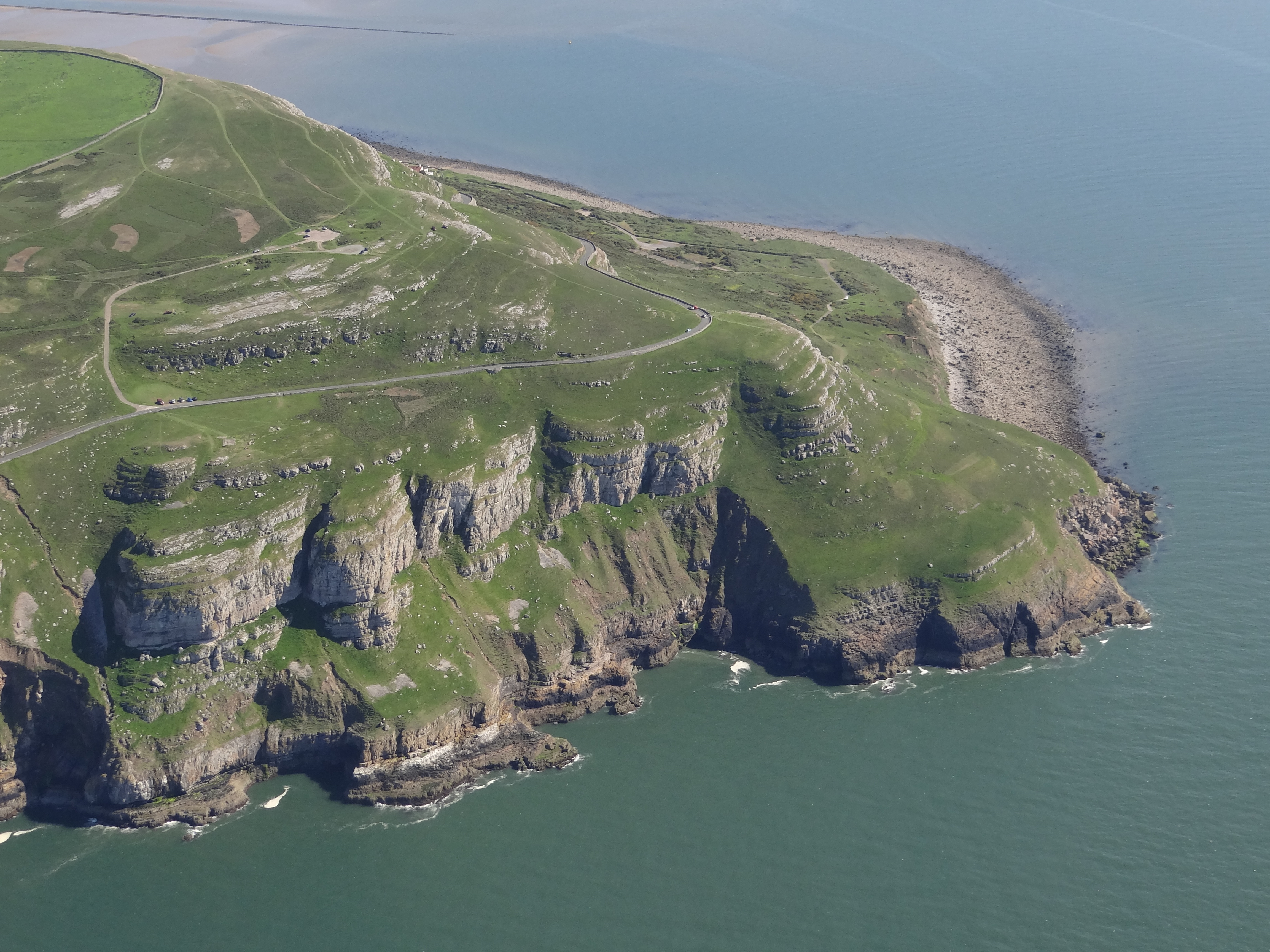 Great Ormes Head